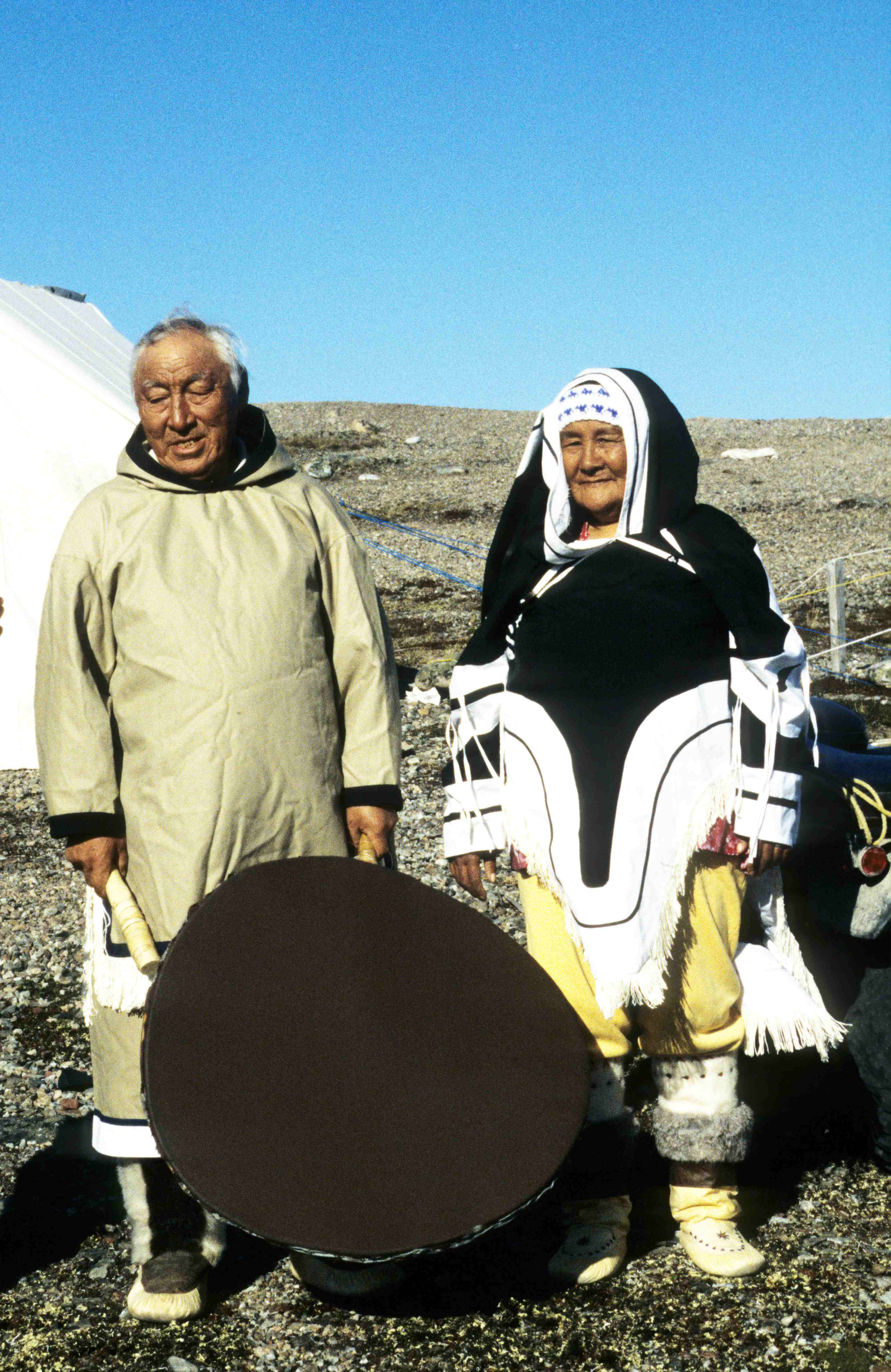 Drumdance near Meliadine River